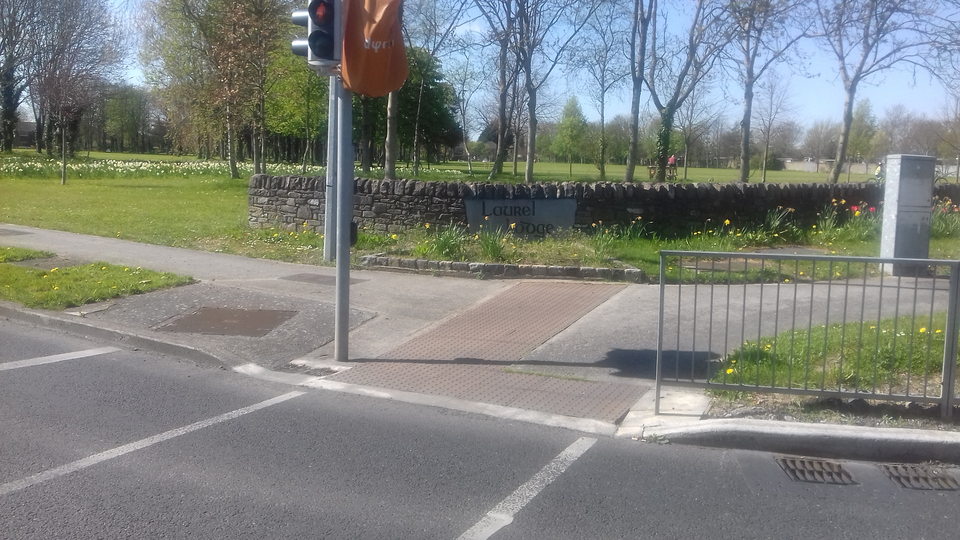 Traffic lights. Granite name stone. Public park. Daffodils. Birch trees. April 2020 in COVID-19 lockdown in Dublin.